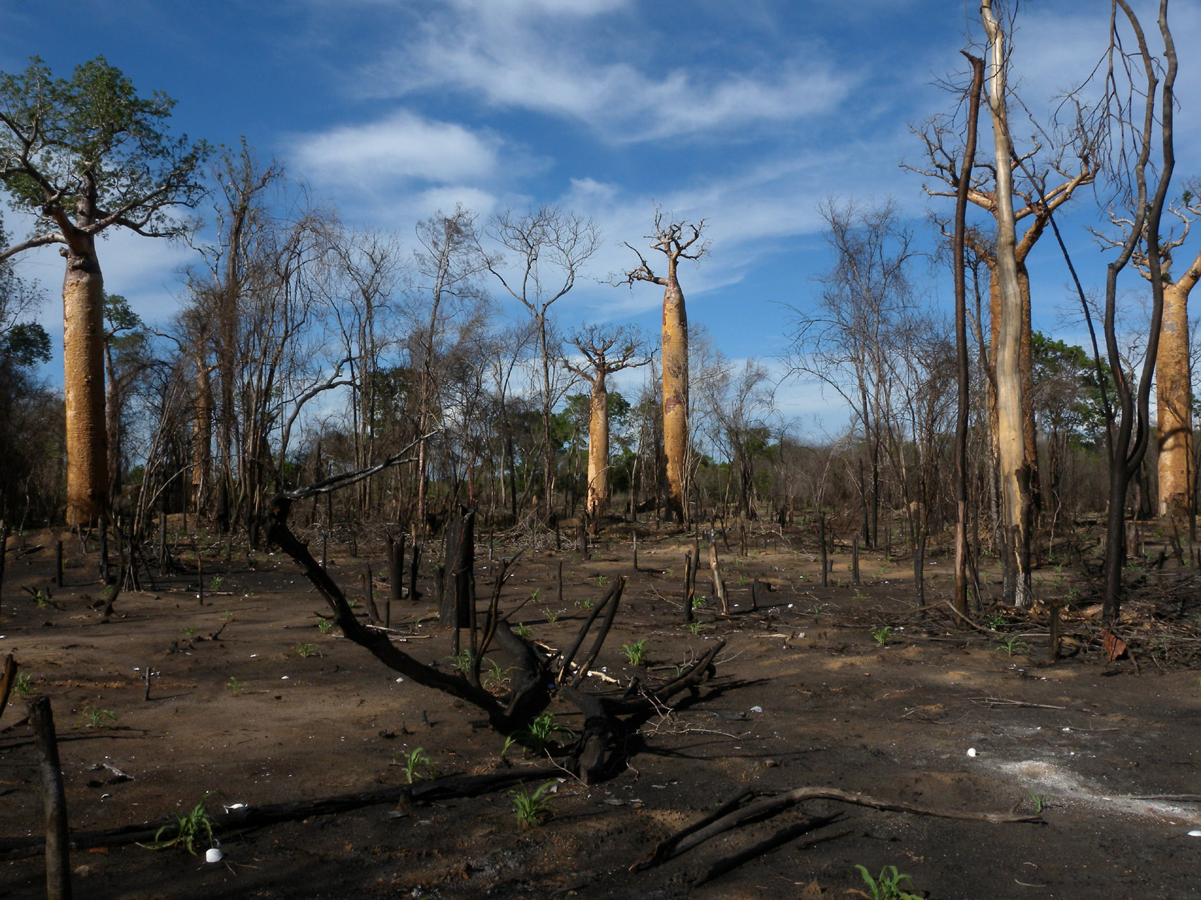 Corn planted on recently burned Malagasy Western Dry Forest. The Author was told by a local person that burning has become more widespread in 2009, as a result of the increasing world marked price for rice.